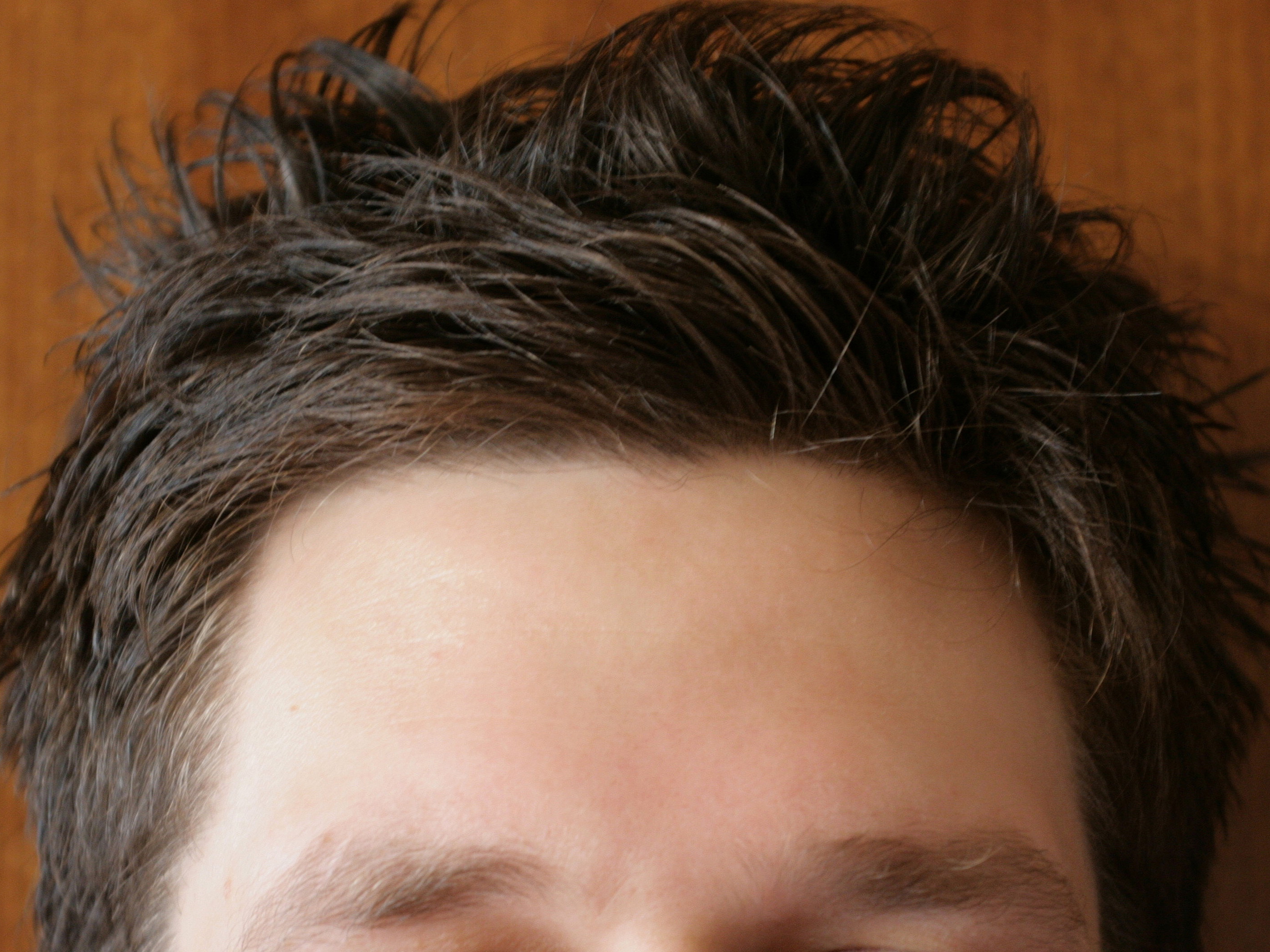 Forehead of a 27-year-old man